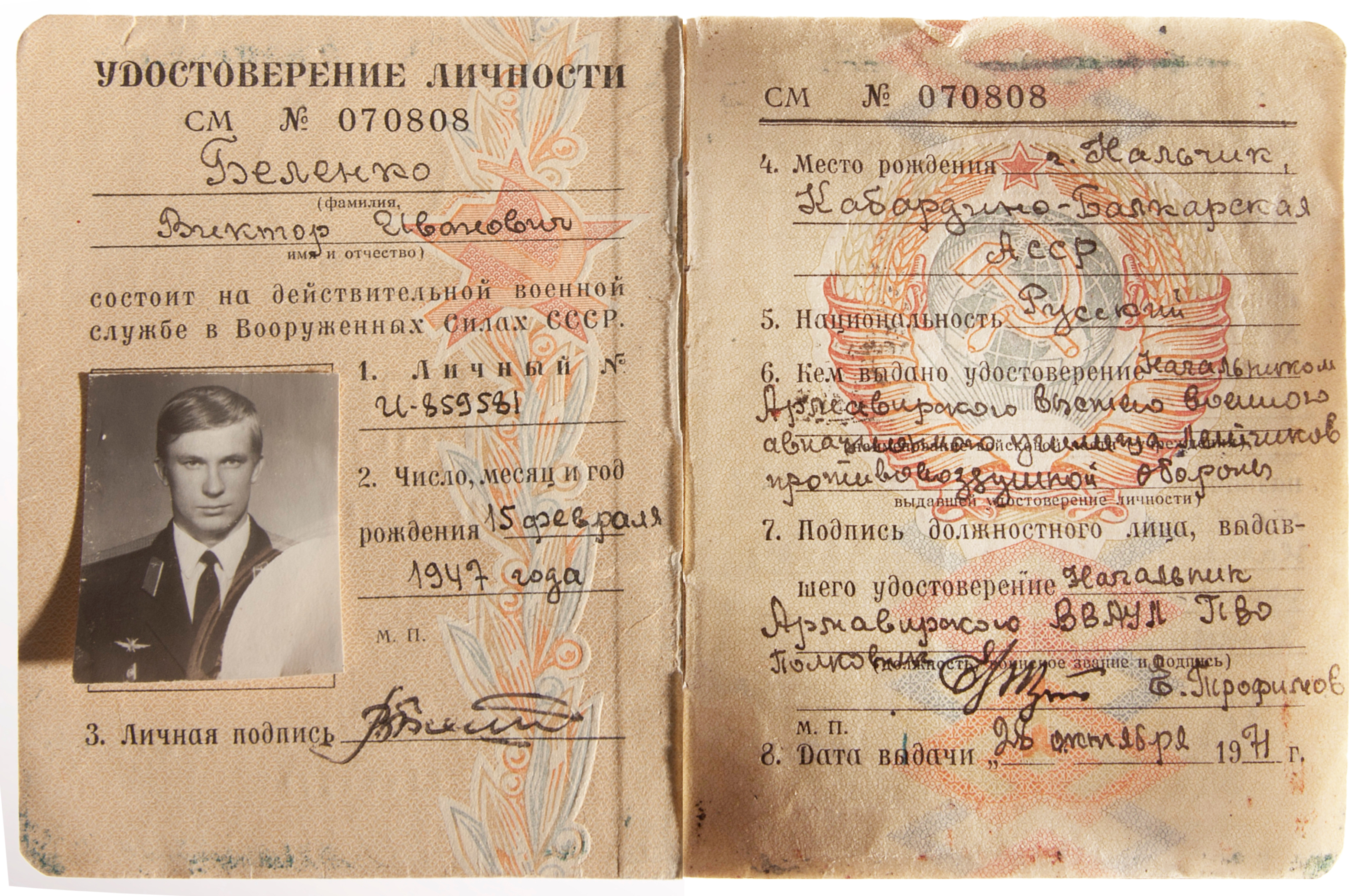 Former Soviet Pilot Viktor Belenko’s Military Identity Document, CIA Museum.